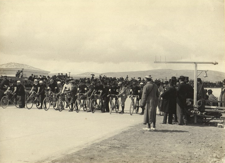 1896 Summer Olympics